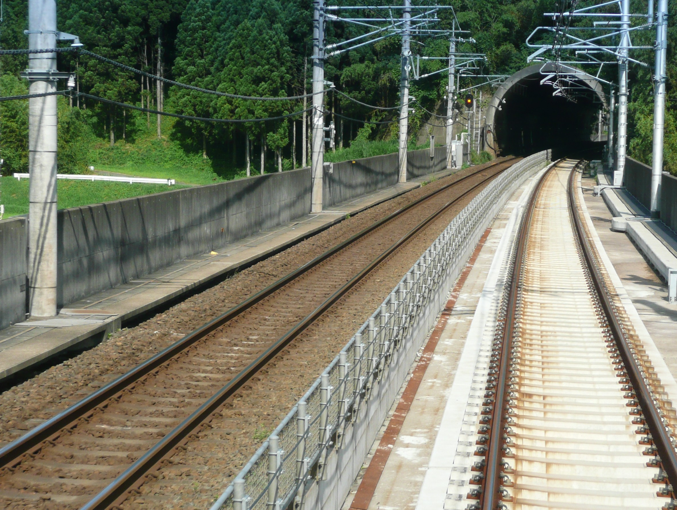 Narita Airport branch line with 1,067 mm gauge JR East Narita Line on the left and 1,435 mm gauge Keisei Sky Access Line on the right